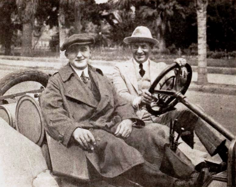 Leading man Cecil Van Auker riding with director George L. Cox during the production of the American film Payment Guaranteed (1921), on page 36 of the March 12, 1921 Exhibitors Herald.